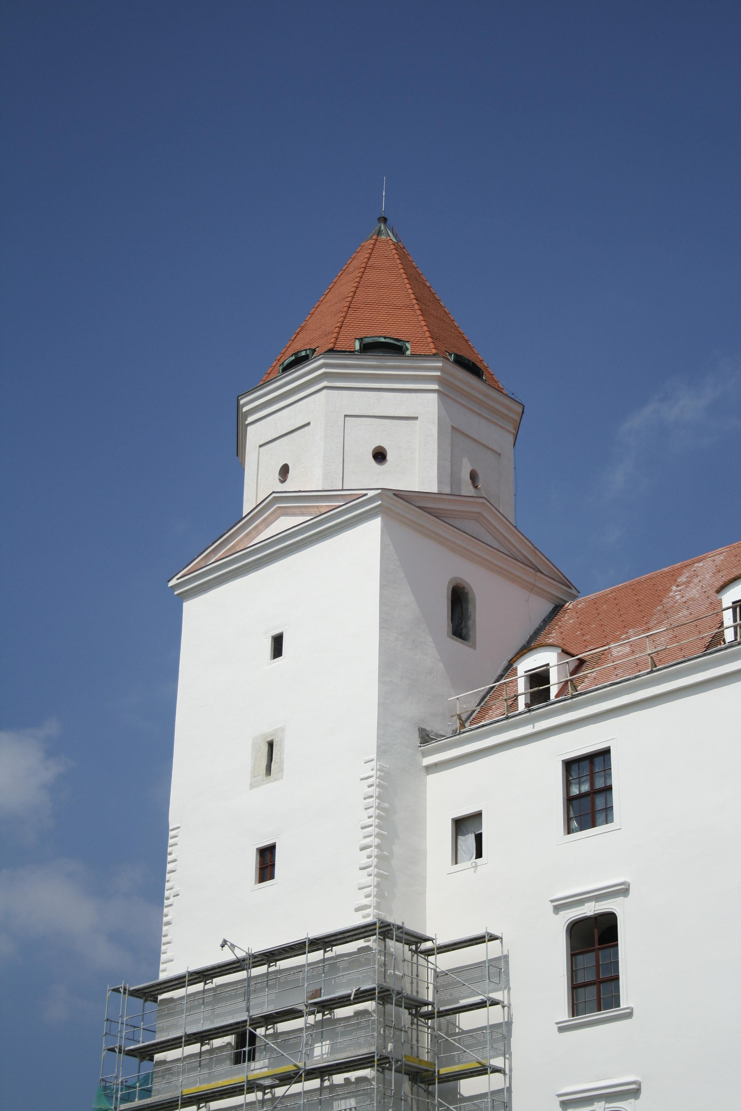 Crown Tower of Bratislava Castle with scaffolding.